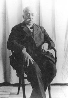 Piedmontese Archeologist Ernesto Schiaparelli, director of the Egyptian Museum in Turin from 1894 to 1927.Piemontèis: L'archeòlogh piemontèis Ernest S-ciaparèj, diretor dël Musé Egissi ëd Turin dal 1894 al 1927.